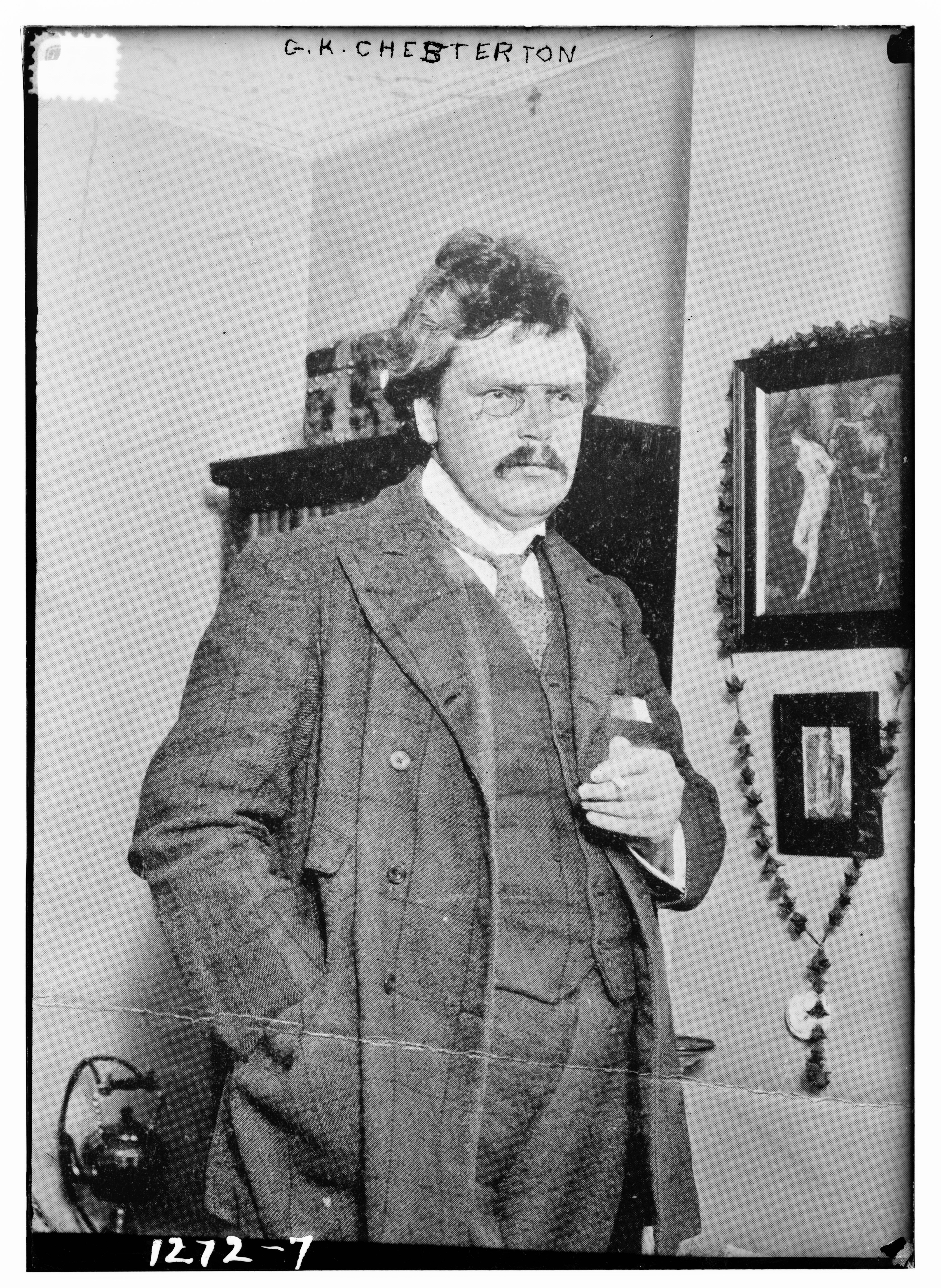 Title: G.K. Chesterton Abstract/medium: 1 negative : glass ; 5 x 7 in. or smaller.